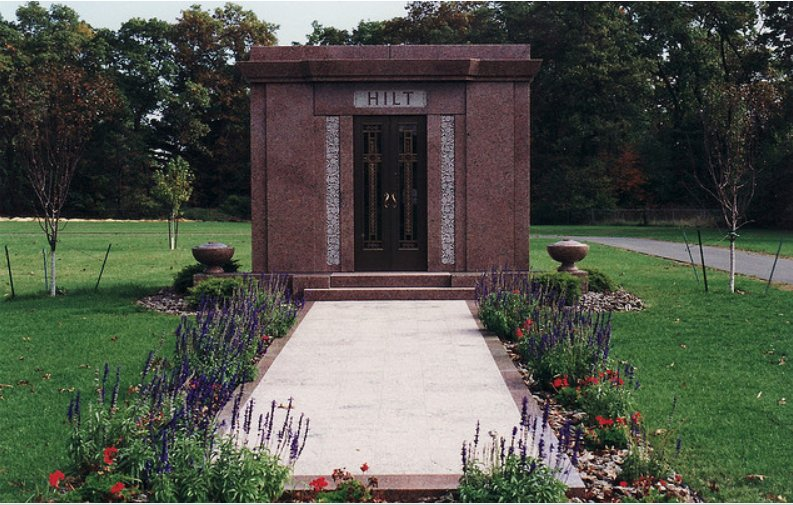 George Hilt mausoleum